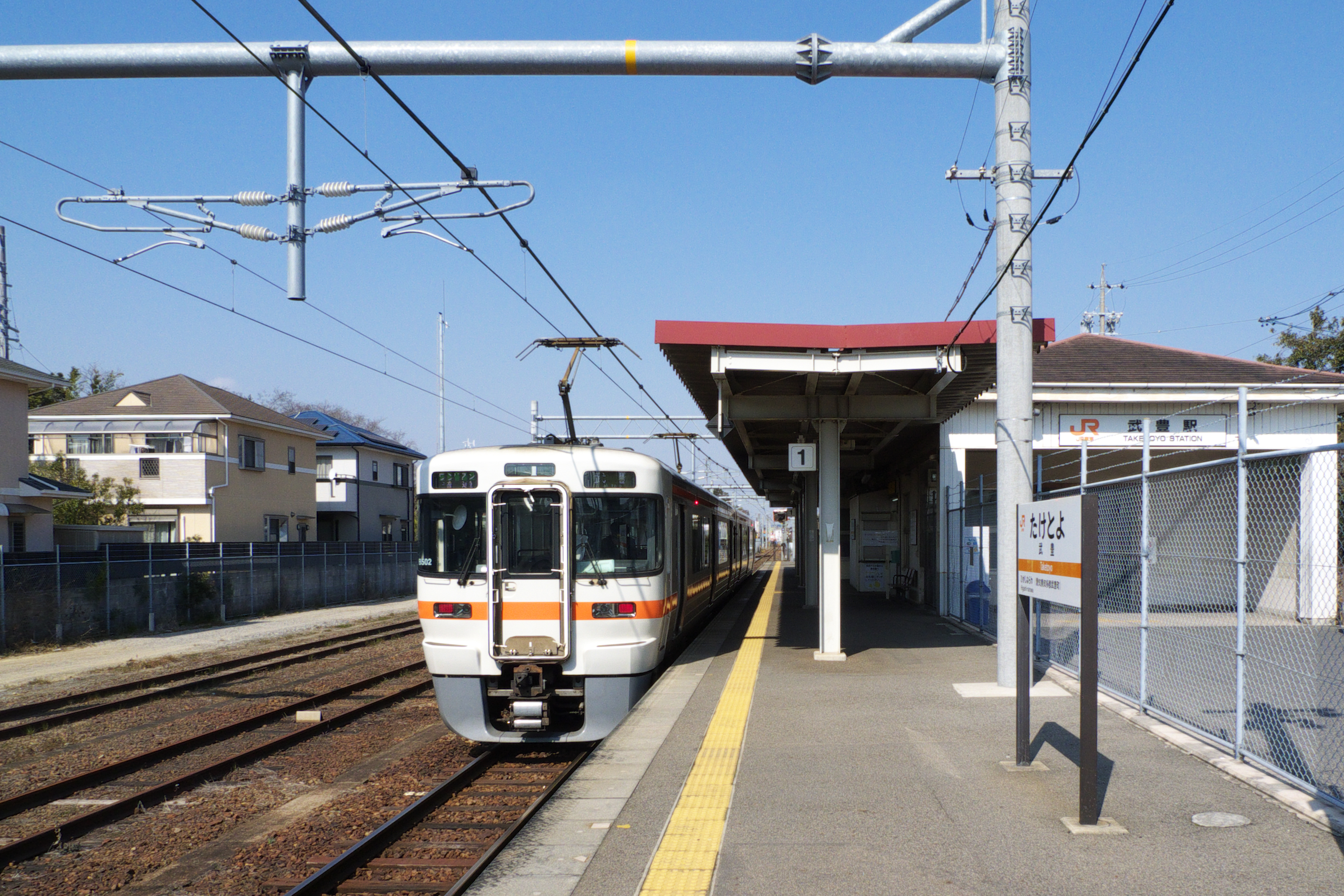 Platform at Taketoyo Station on the Central Japan Railway Company (JR Central) Taketoyo Line